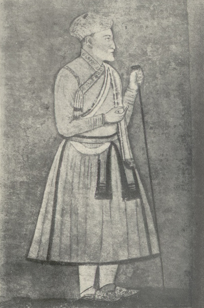 Picture of Shaista Khan from the book by Francis Bradley Bradley-Birt